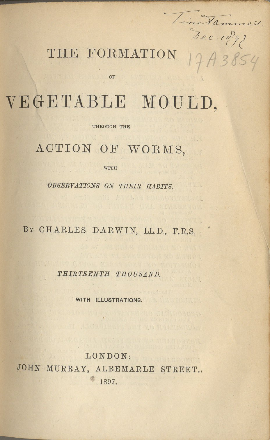 voorblad van het boek 'The Formation of Vegetable Mould through the Action of Worms - with Observations on their Habits'